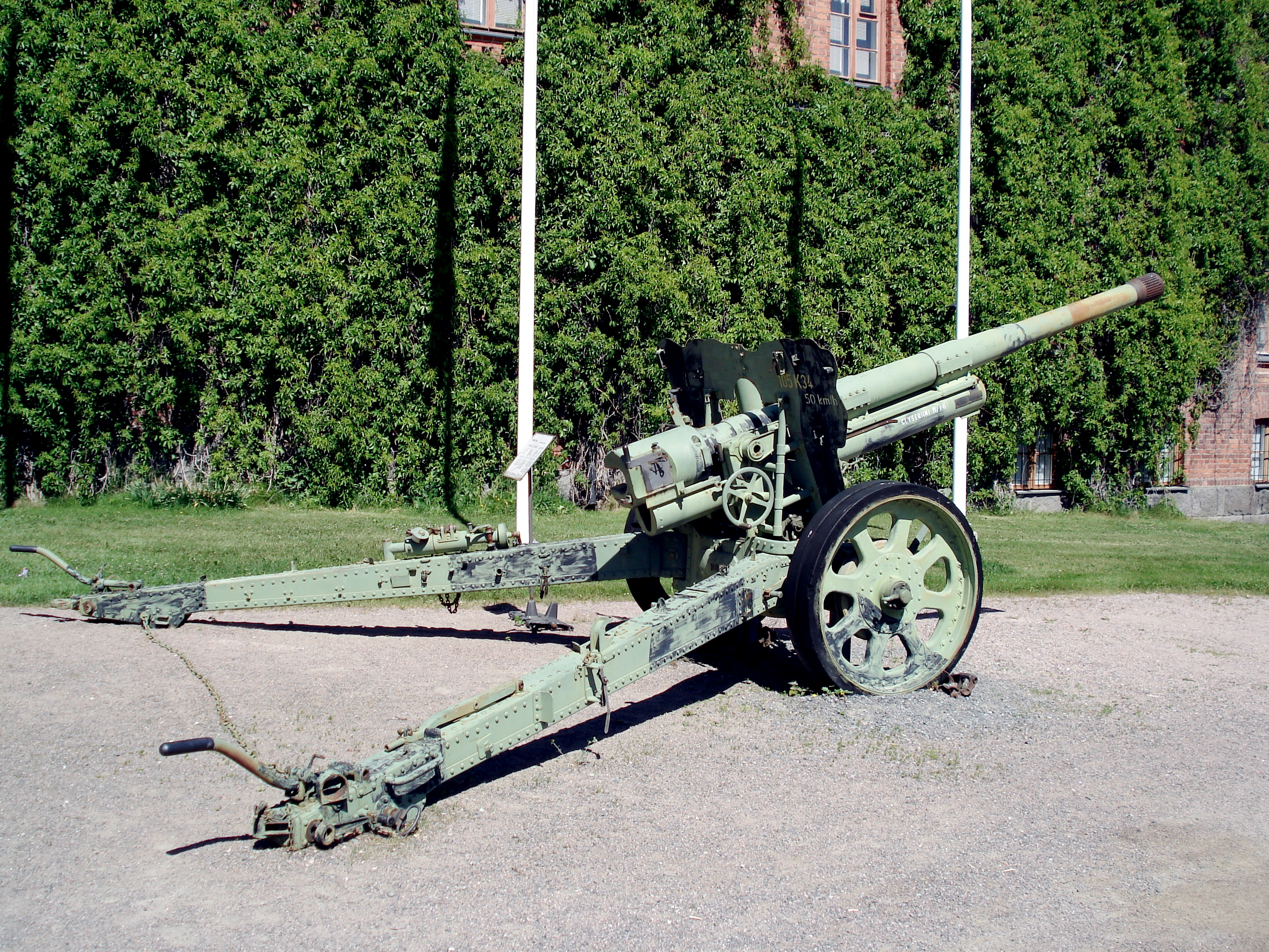 105 mm M34 cannon manufactured by Swedish Bofors. This particular example is one of the 12 purchased and used by Finland. Displayed in Hämeenlinna Artillery Museum. Photo taken on June 18, 2006. Source: Photo by me, User:Balcer.